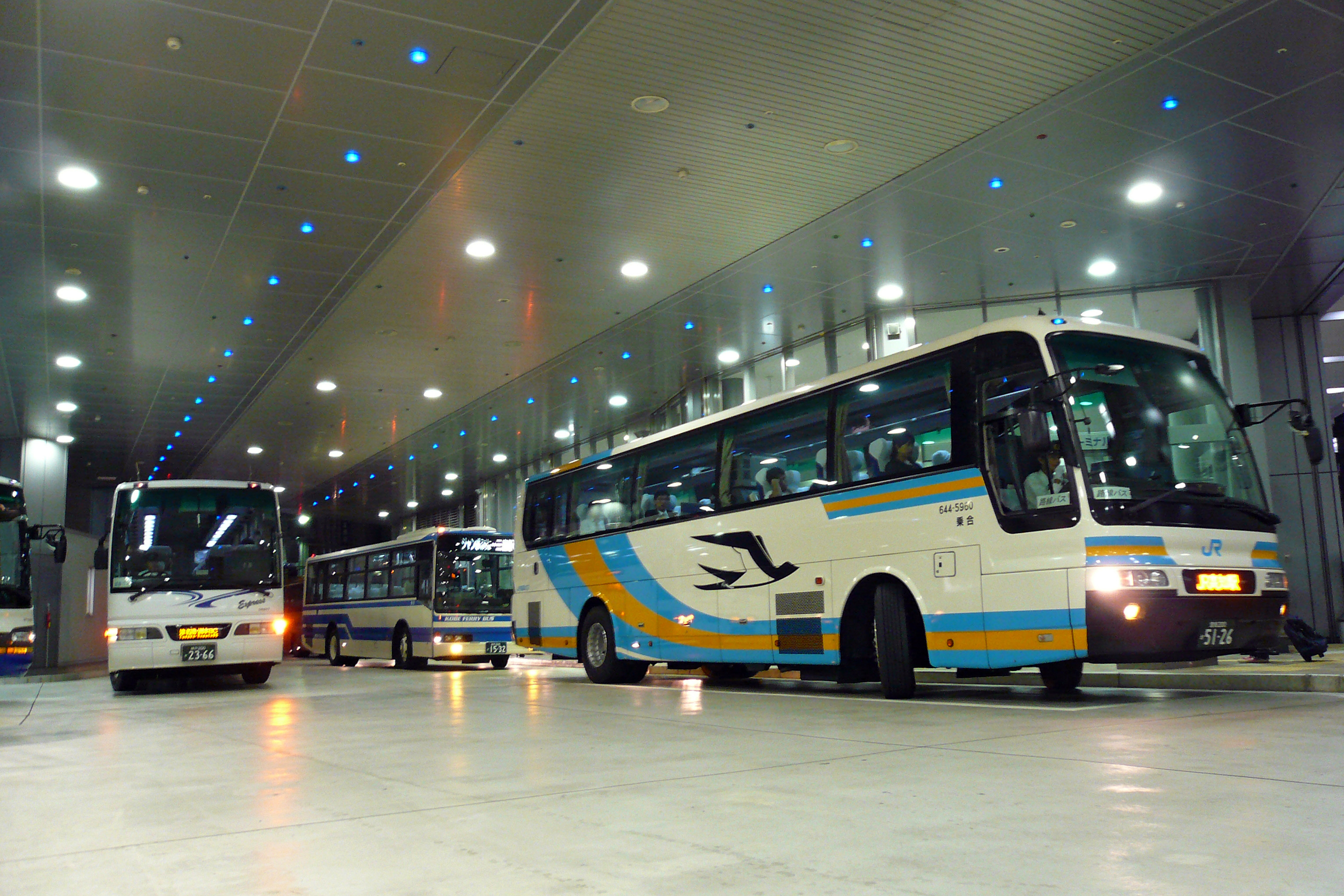 Sannomiya Bus Terminal (Mint Kobe 1F) in Kobe, Hyogo prefecture, Japan